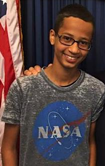 US Congressman Mike Honda and Ahmed Mohamed at Ames Research Center in Washington, D.C. Pictures taken on an official camera of the Office of US Congressman Mike Honda. see also archived link.